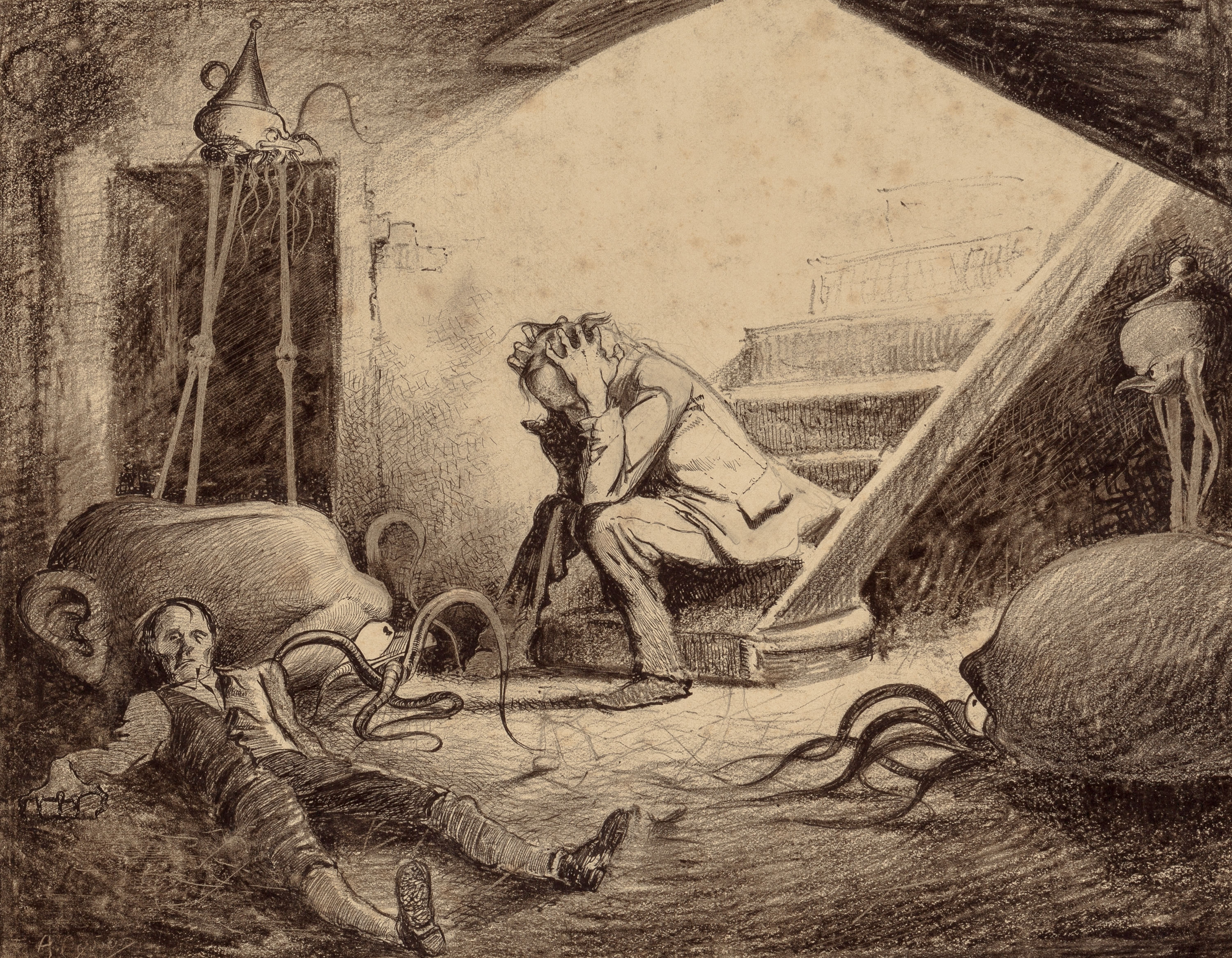 Illustration by Henrique Alvim Corrêa, from the 1906 Belgium (French language) edition of H.G. Wells' "The War of the Worlds", 1906. A scan from the orginal graphic. Orginal caption / oryginalny opis